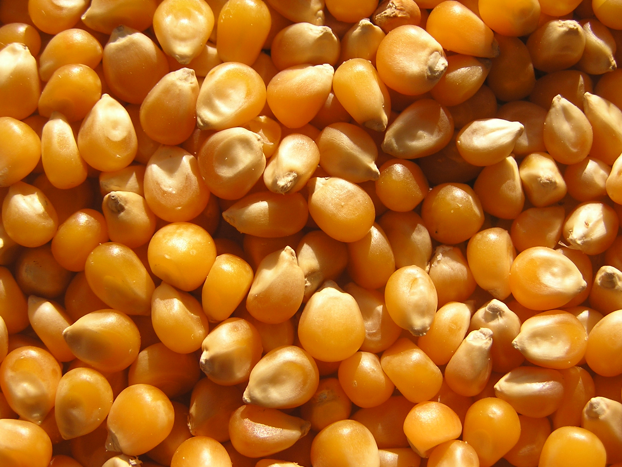 Maize for popcorn, cultivated in Hungary, producer UNO FRESCO TRADEX.